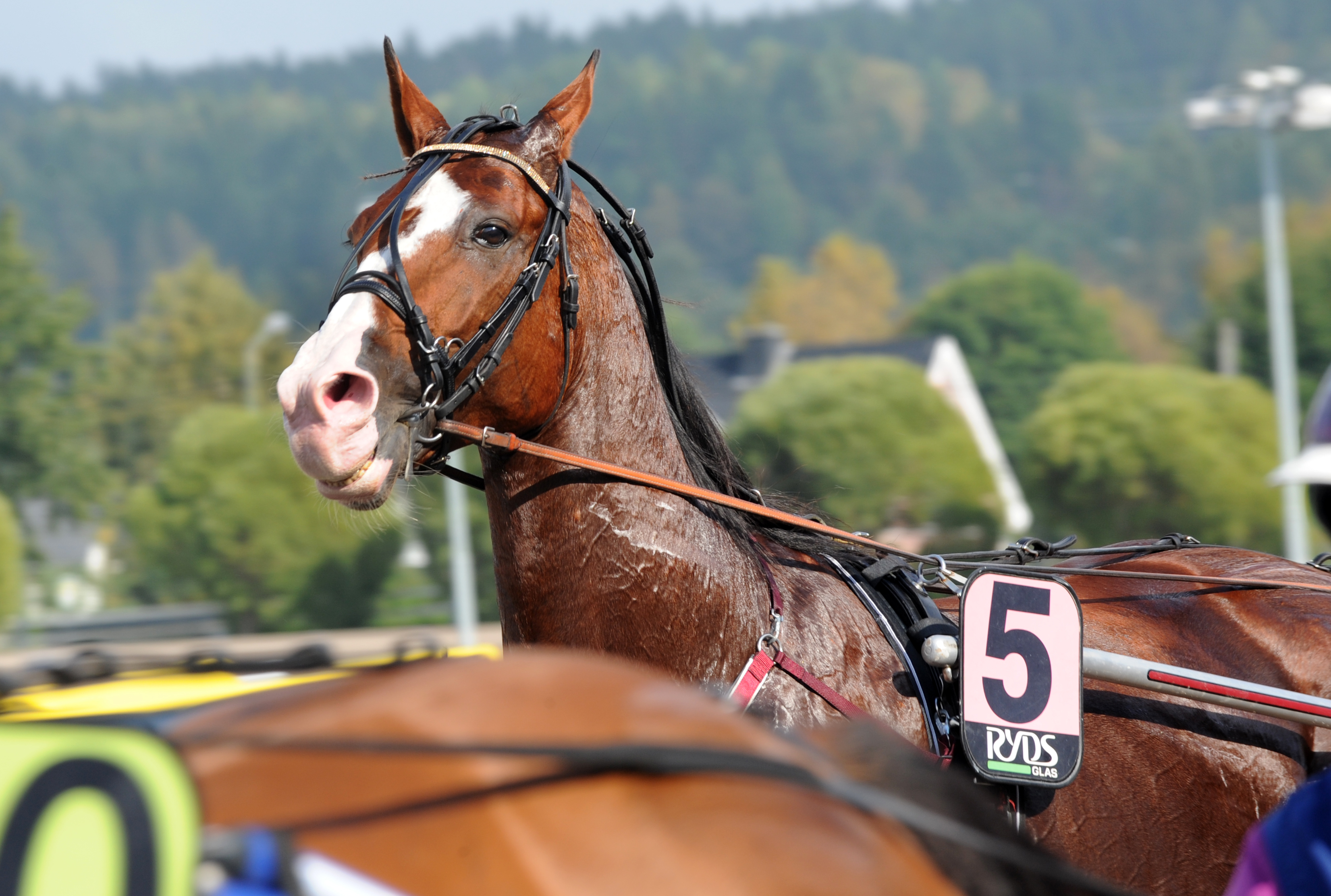 Trotting horse Joke Face.